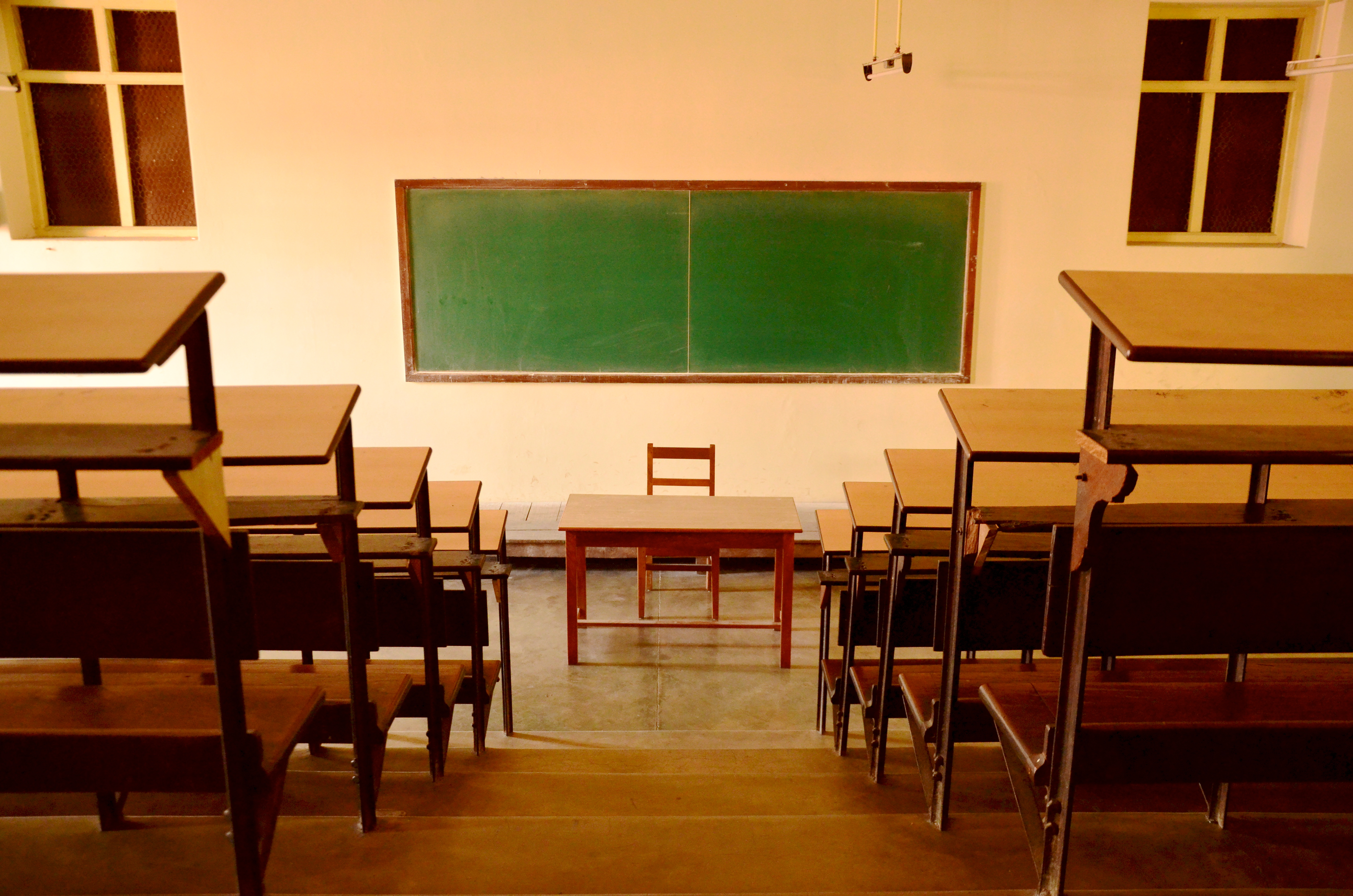 Classroom at St.Xaviers College, Kolkata